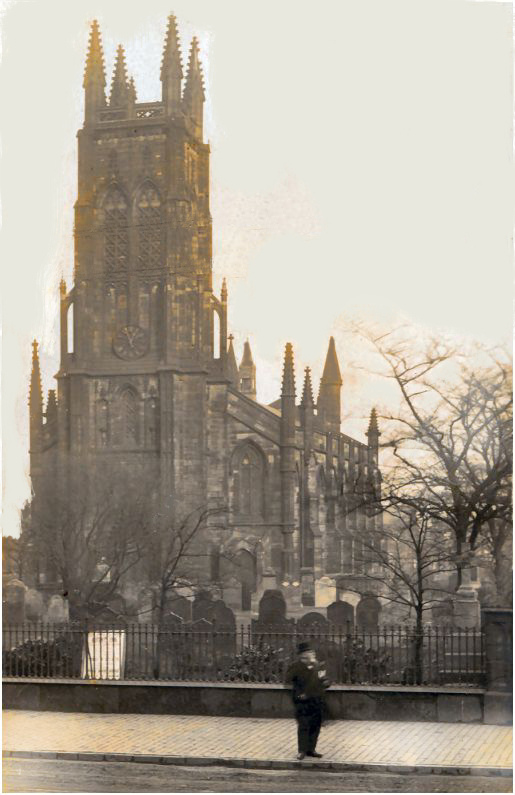 Christ Church, West Bromwich. Built 1821-1828. Architect Francis Goodwin.